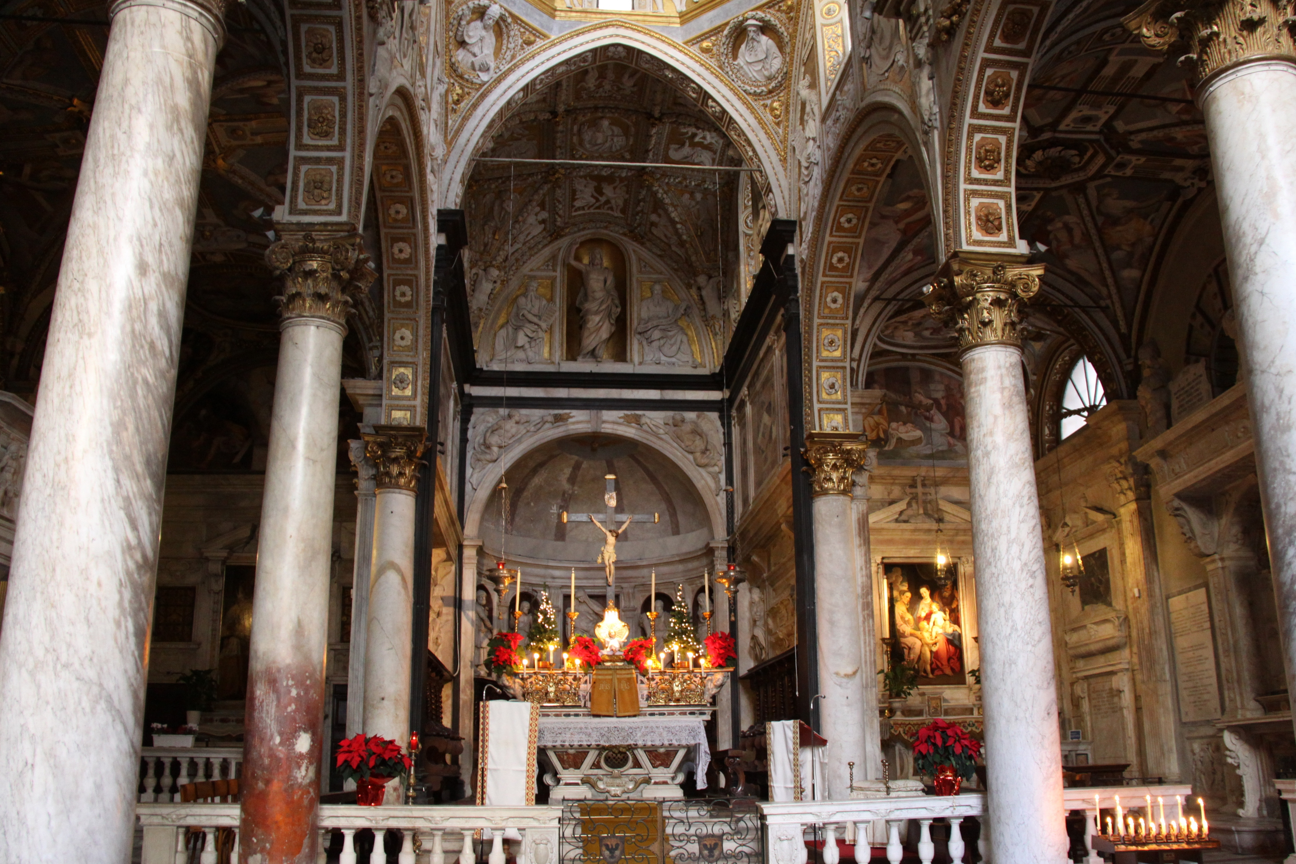 Genoa (ITaly), church of St. Matthew, interior